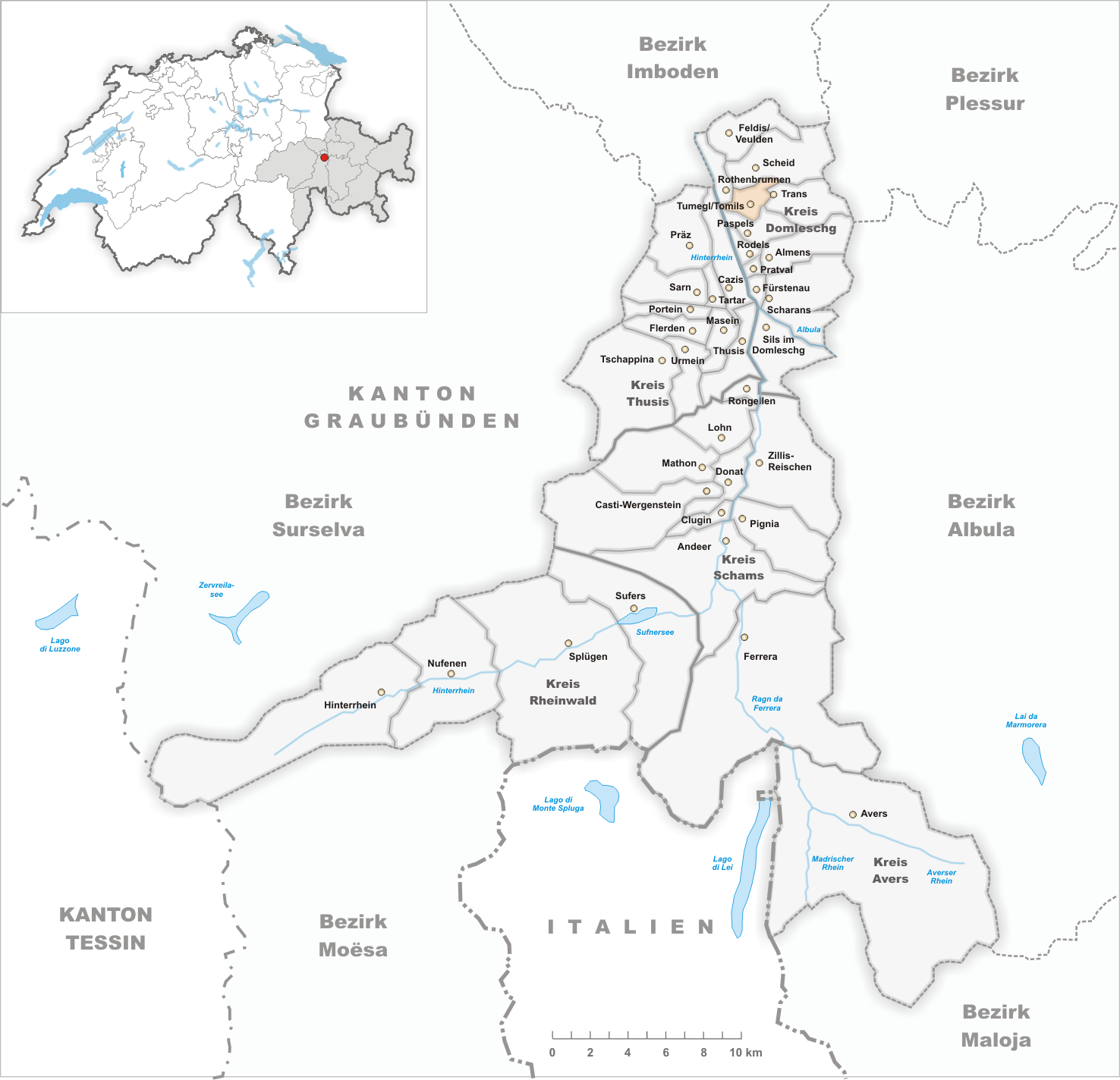 Municipality Tumegl/Tomils